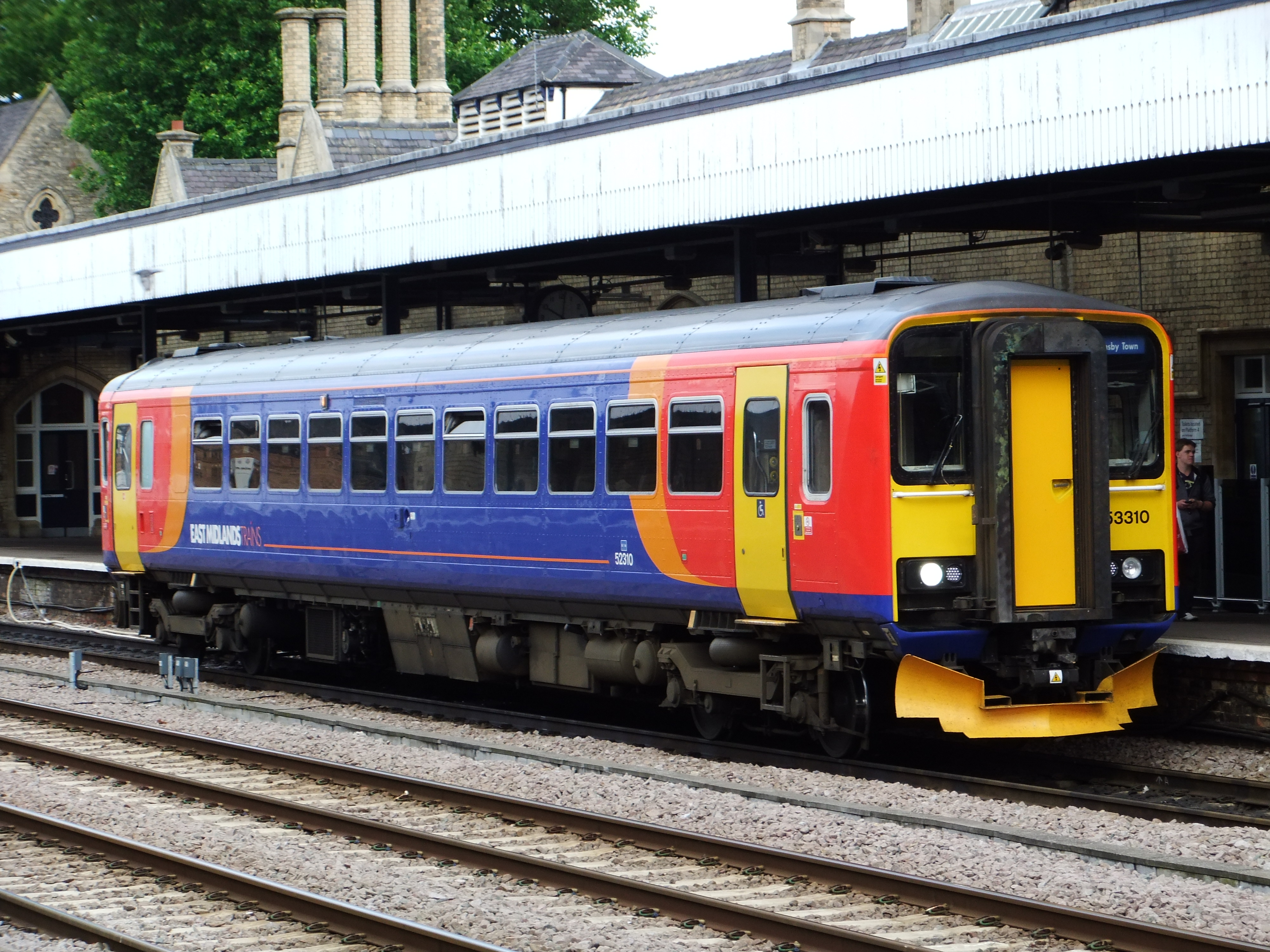 153310 at Lincoln railway station, England.